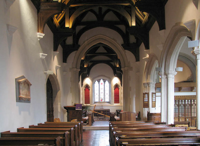 St Michael, Chenies, Bucks - East end